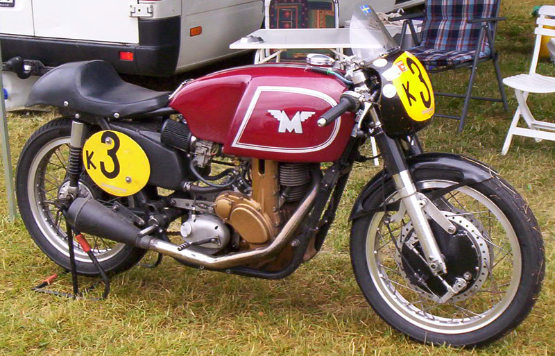 Matchless G50 500 cc Racer 1961